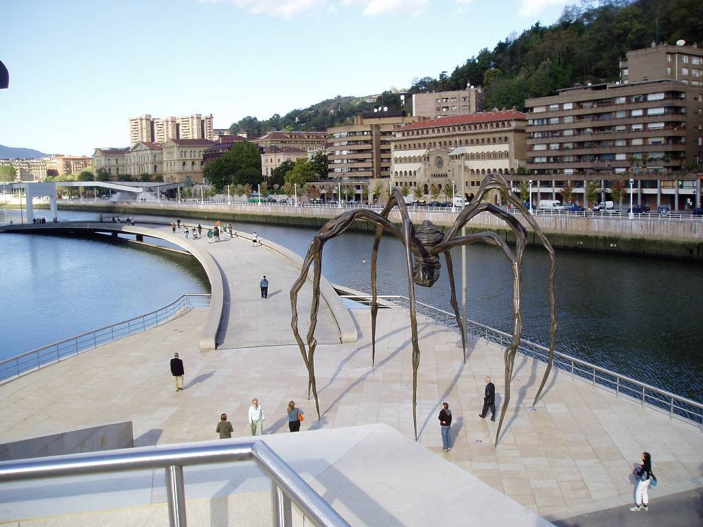 Maman (spider sculpture in Bilbao), in the background the campus of the Deustuka Unibersitateamaman